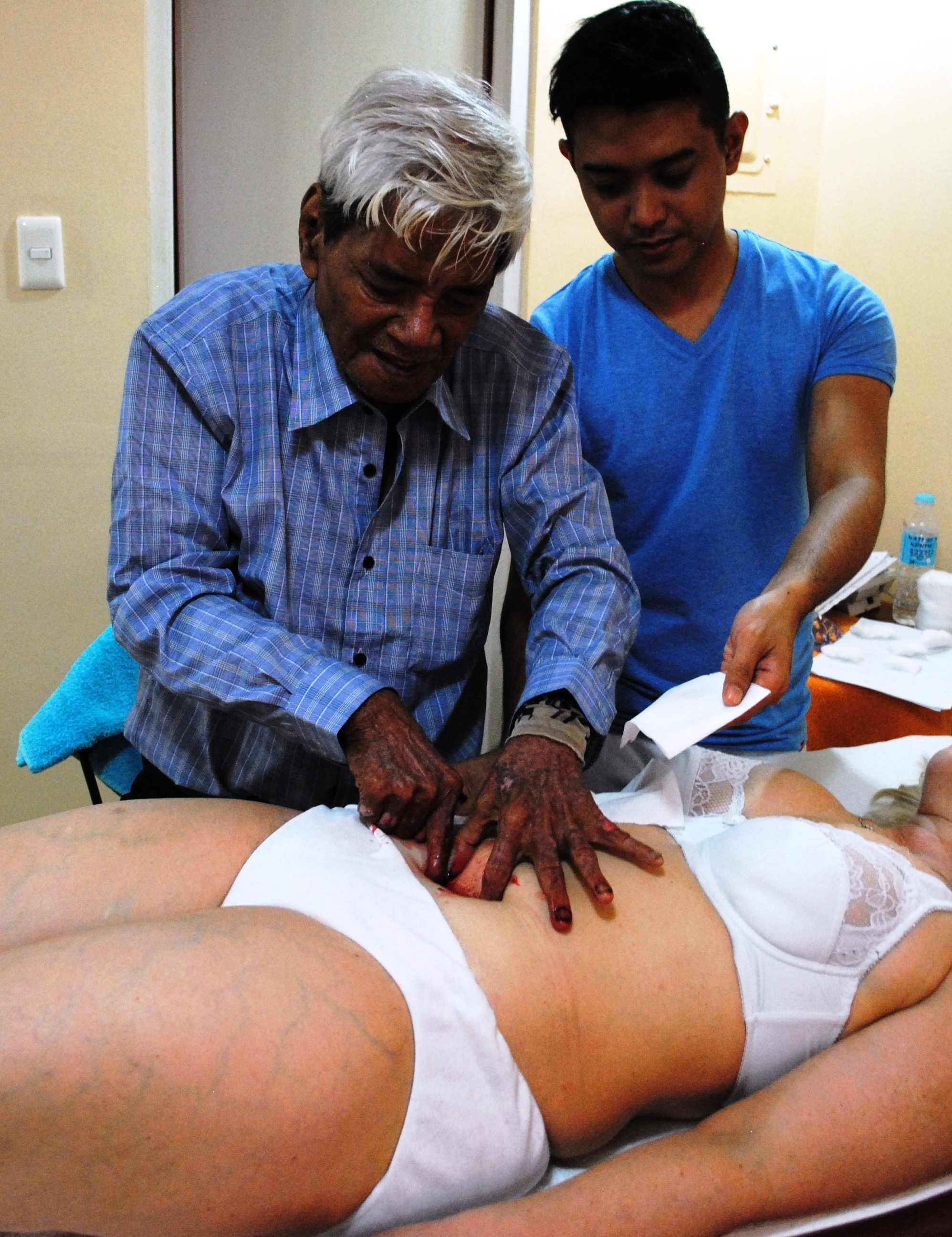 Psychic surgery